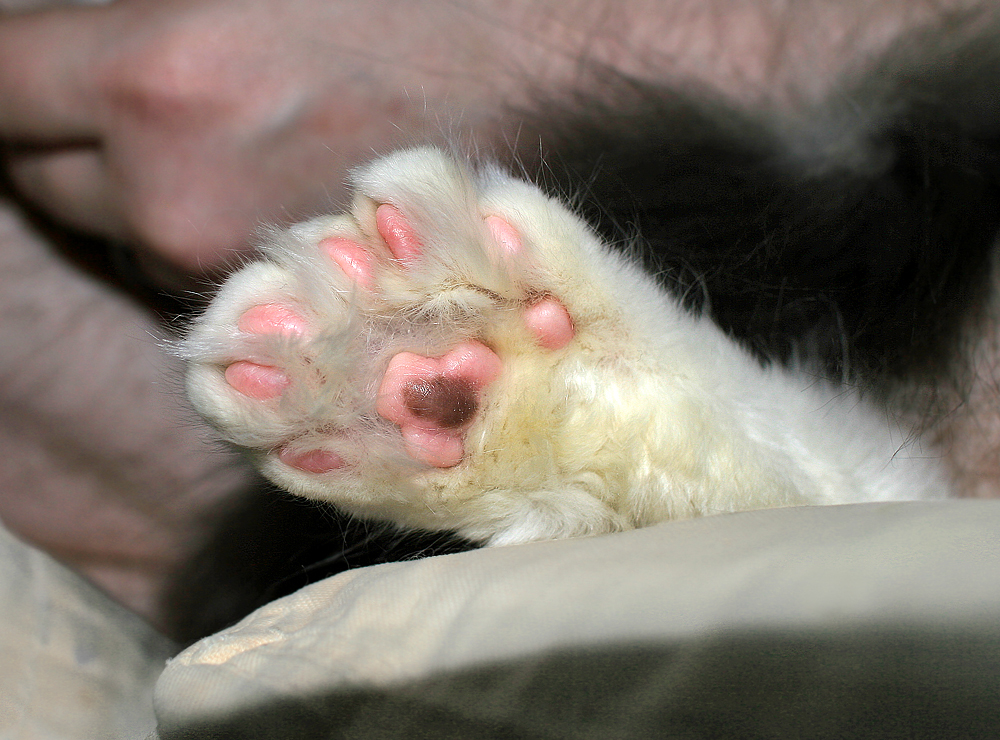 Left rear paw of a female Maine Coon polydactyl kitten.